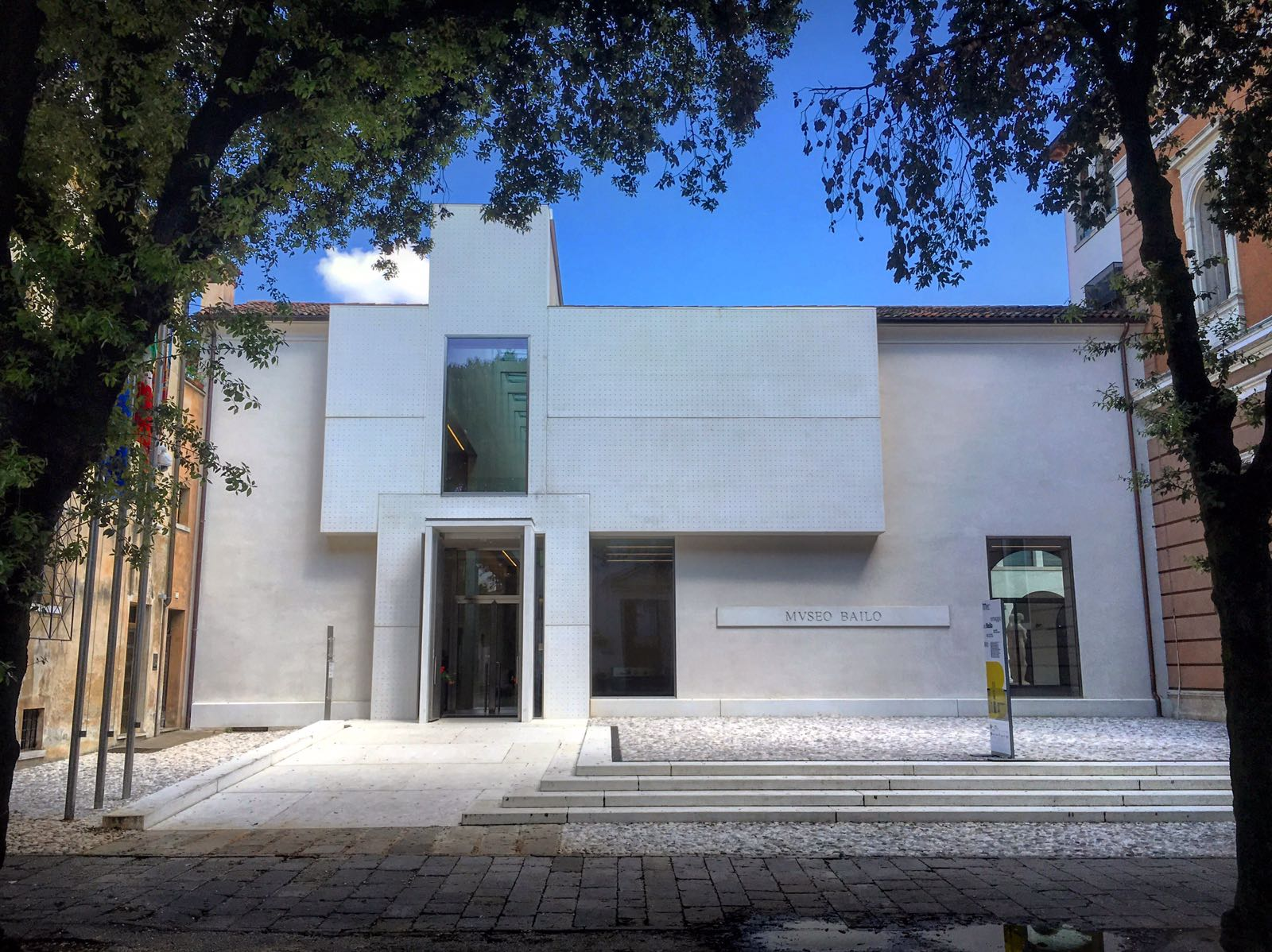 Museum "Luigi Bailo" in Treviso (Italy)